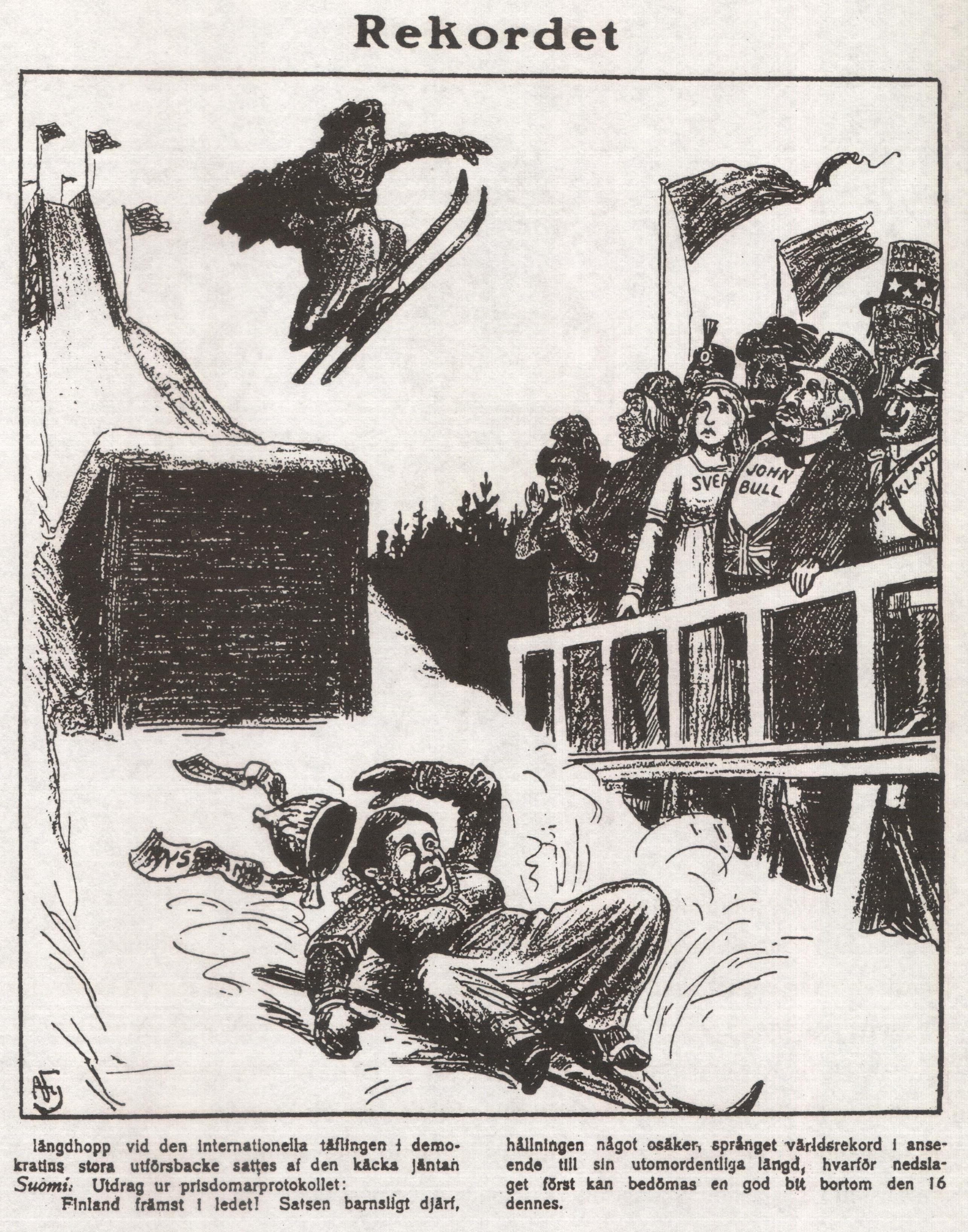 Finland (depicted as the Finnish maiden) makes the world record in suffrage and democracy (ski jumping) with its parliamentary reform, Russia fails, other nations watch and judge. Published in Finnish humour magazine Fyren.